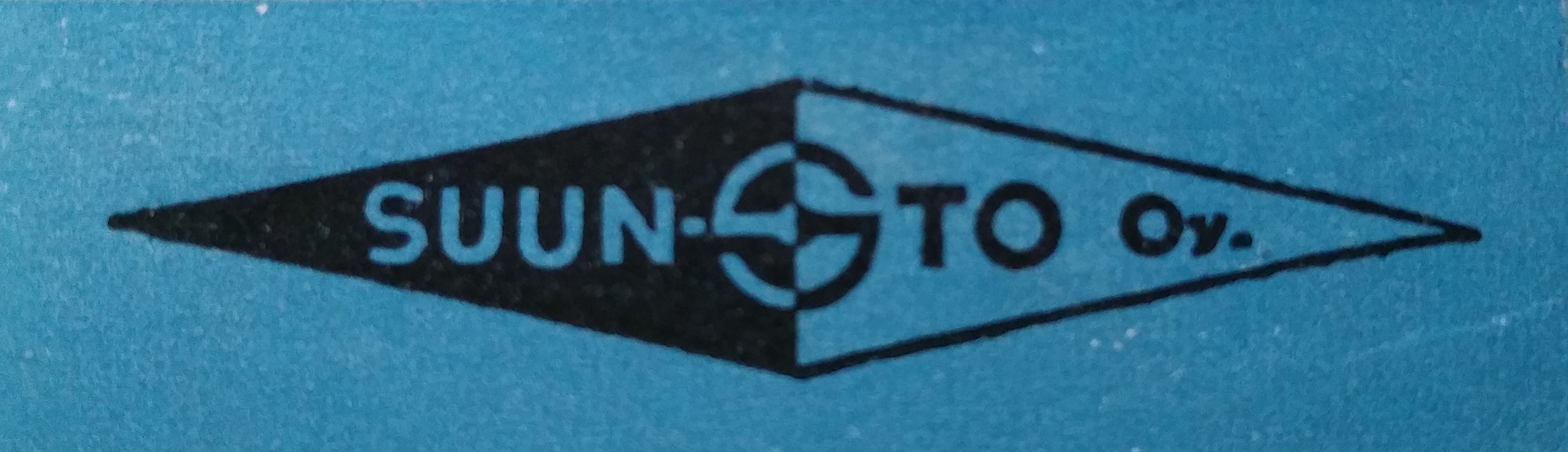 The original logo of Suunto